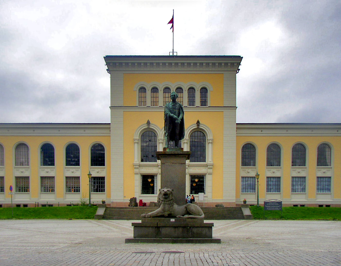 Bergen Museum, a part of The University of Bergen. The sculpture of Wilhelm Frimann Koren Christie in front of the building is by Christopher Borch.